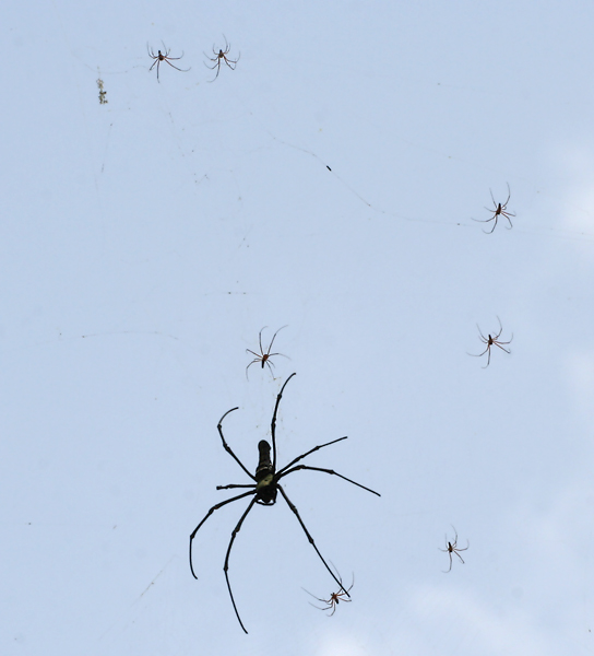 Giant Wood Spider Nephila pilipes at Ananthagiri Hills, in Rangareddy district of Andhra Pradesh, India.